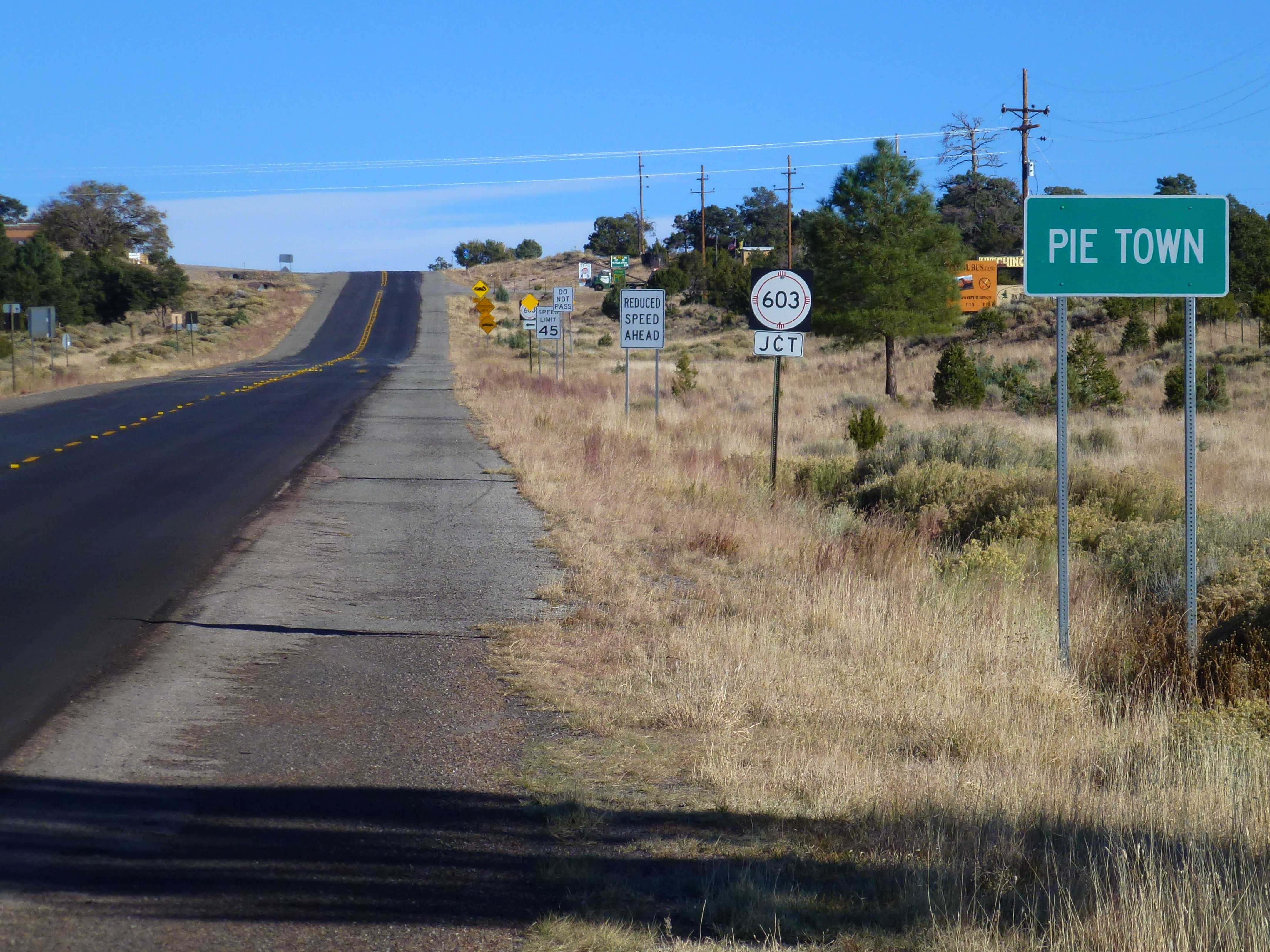 View E, Entering Pie Town, New Mexico, 2012